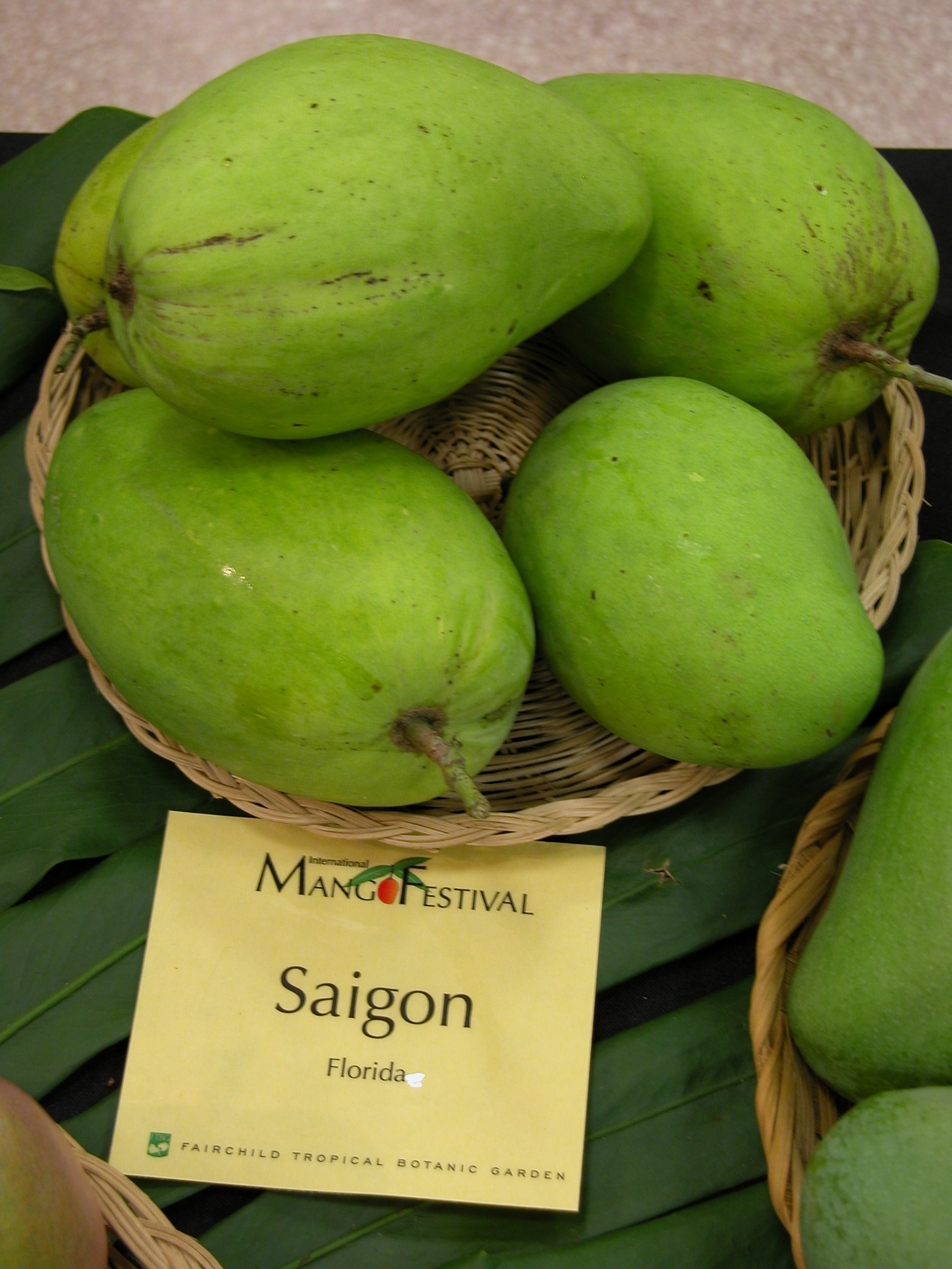 This is a photo of the display of Saigon mango at the 15th Annual International Mango Festival at the Fairchild Tropical Botanic Garden in Coral Gables, Florida.